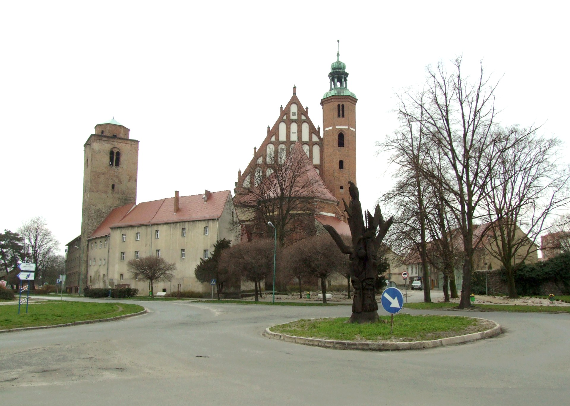 Żary